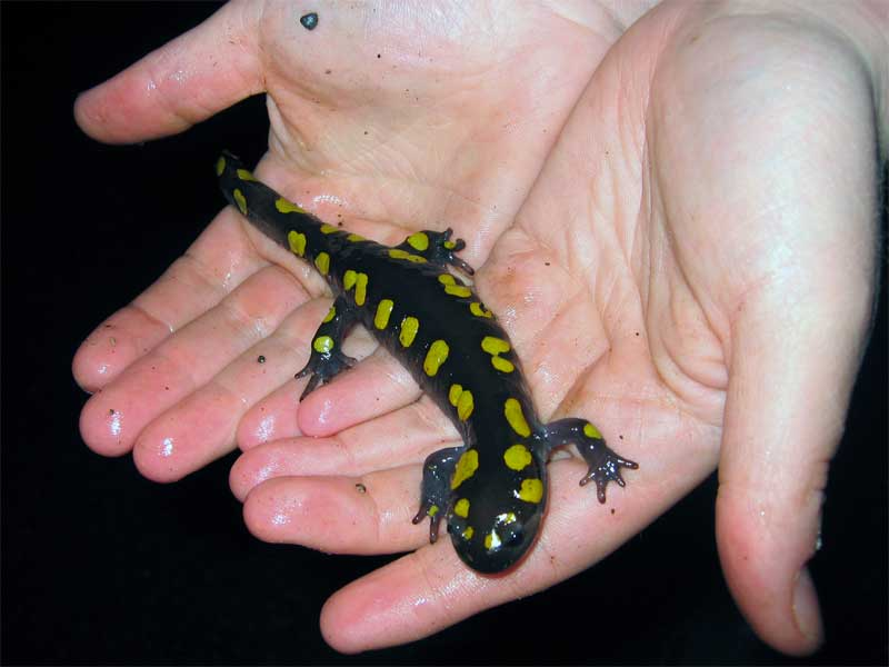 An adult spotted salamander (Ambystoma maculatum)